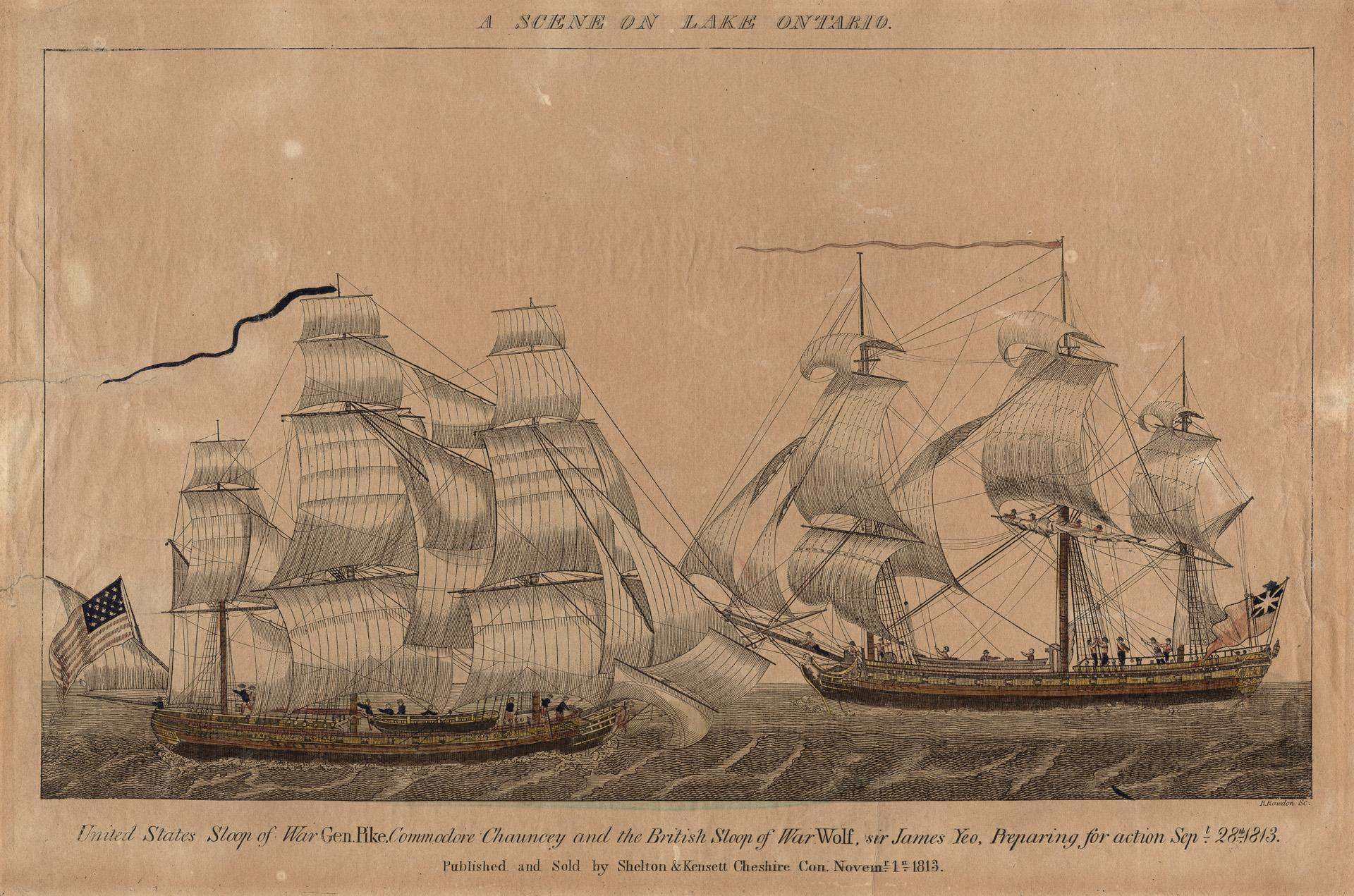 A scene on Lake Ontario - United States sloop of war Gen. Pike, Commodore Chauncey, and the British sloop of war Wolfe, Sir James Yeo, preparing for action, September 28, 1813. Published and sold by Shelton & Kennet, Cheshire, Con. November 1st 1813